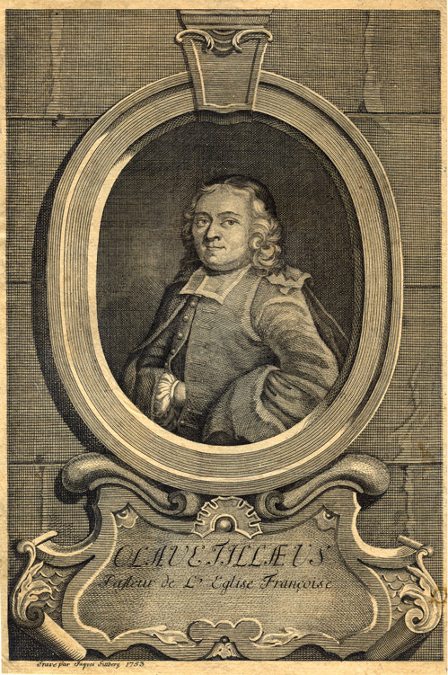 Olof Tillaeus, the Dean of Stockholm Cathedral.